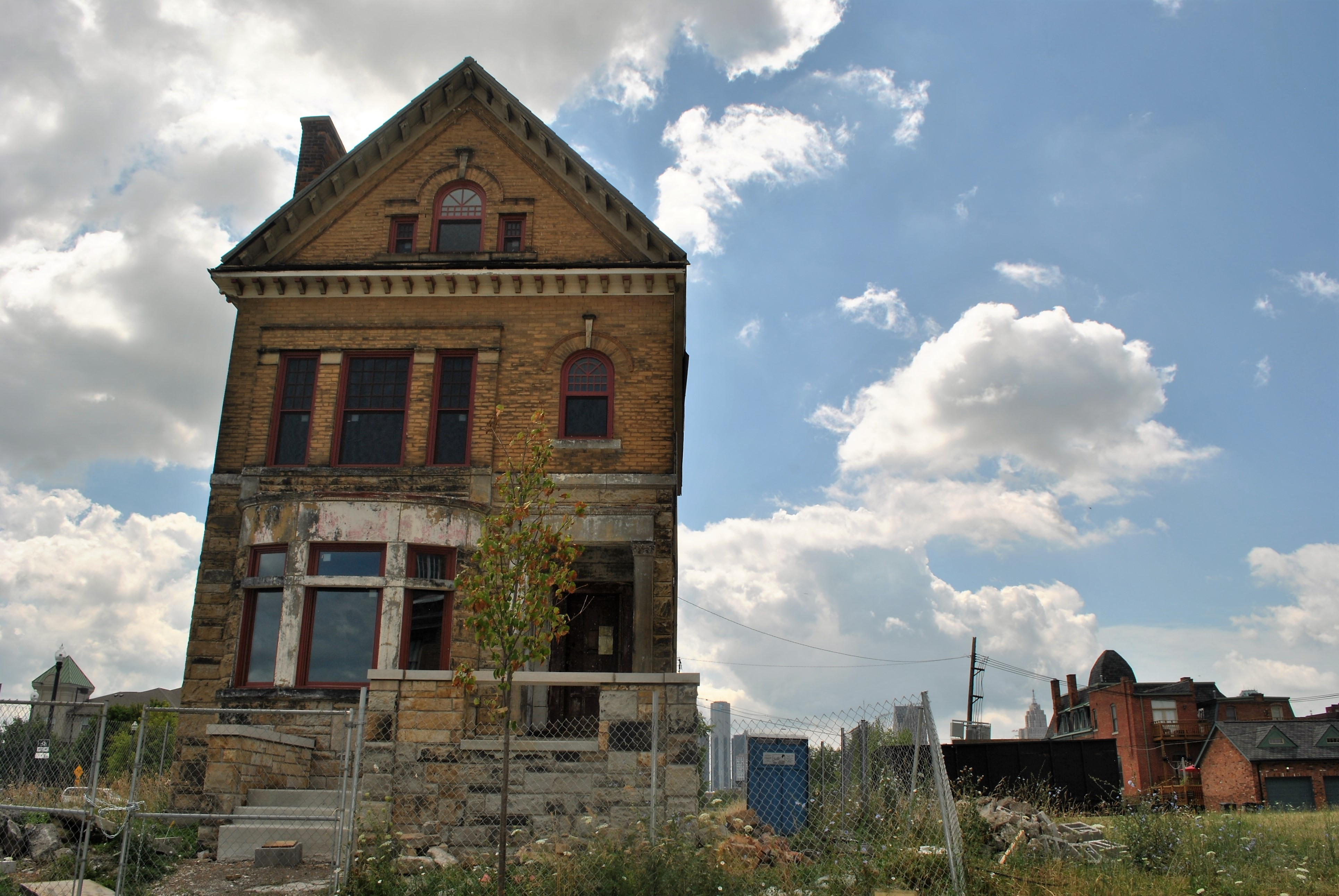 Brush Park Historic District